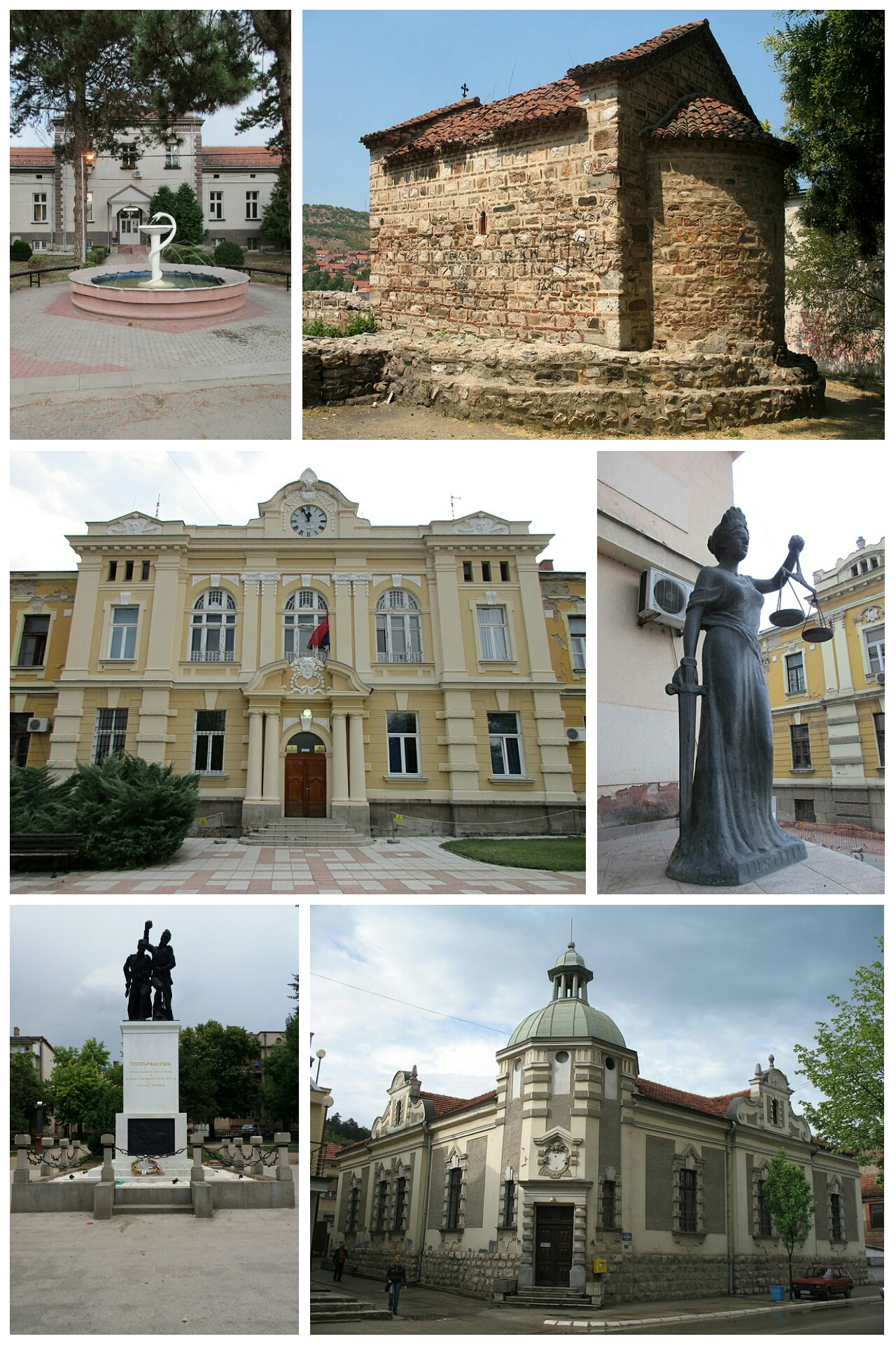 Photoshop of Prokuplje (General Hospital, Latin Church, City Hall, Statue on the court building in Prokuplje, Monument to World War I heroes in Prokuplje, National museum of Toplica)